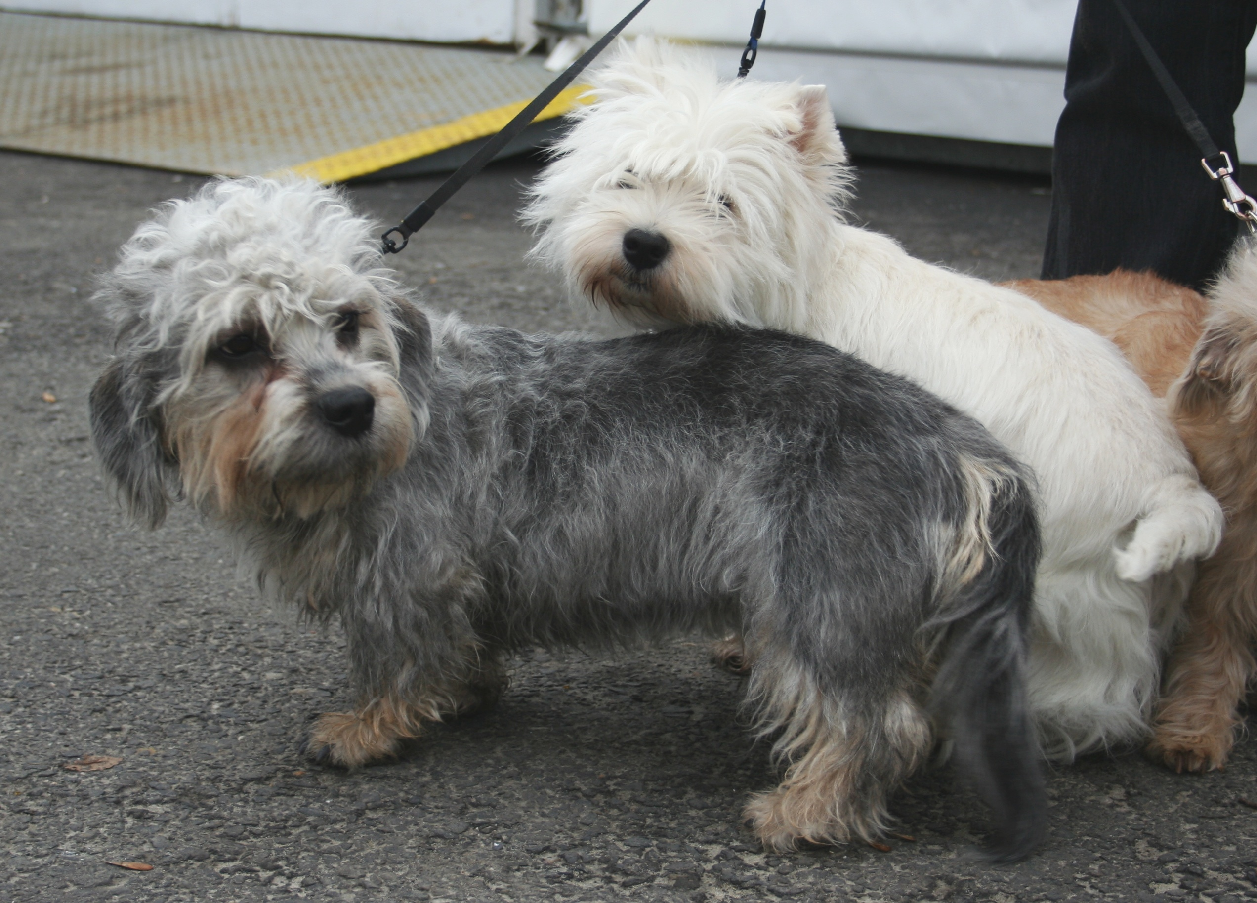 Dandie Dinmont Terrier and West Highland White Terrier during the international dogs show in Katowice, Poland. The dogs comes from the kennel "Canis Terra"